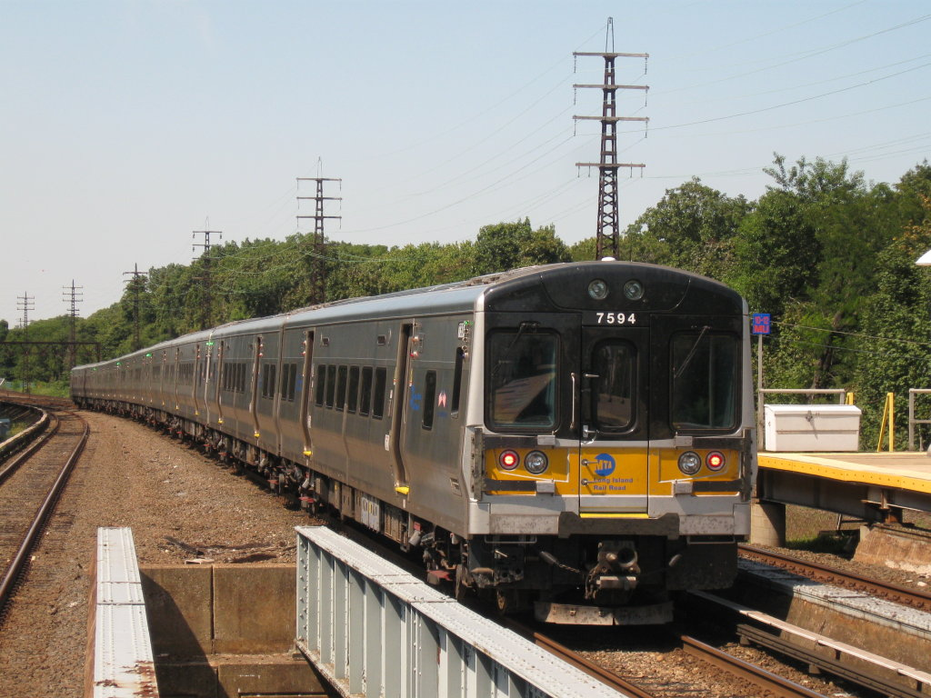 Long Beach (New York) train #853 of the Long Island Rail Road departs Lynbrook westbound for New York Penn Station.